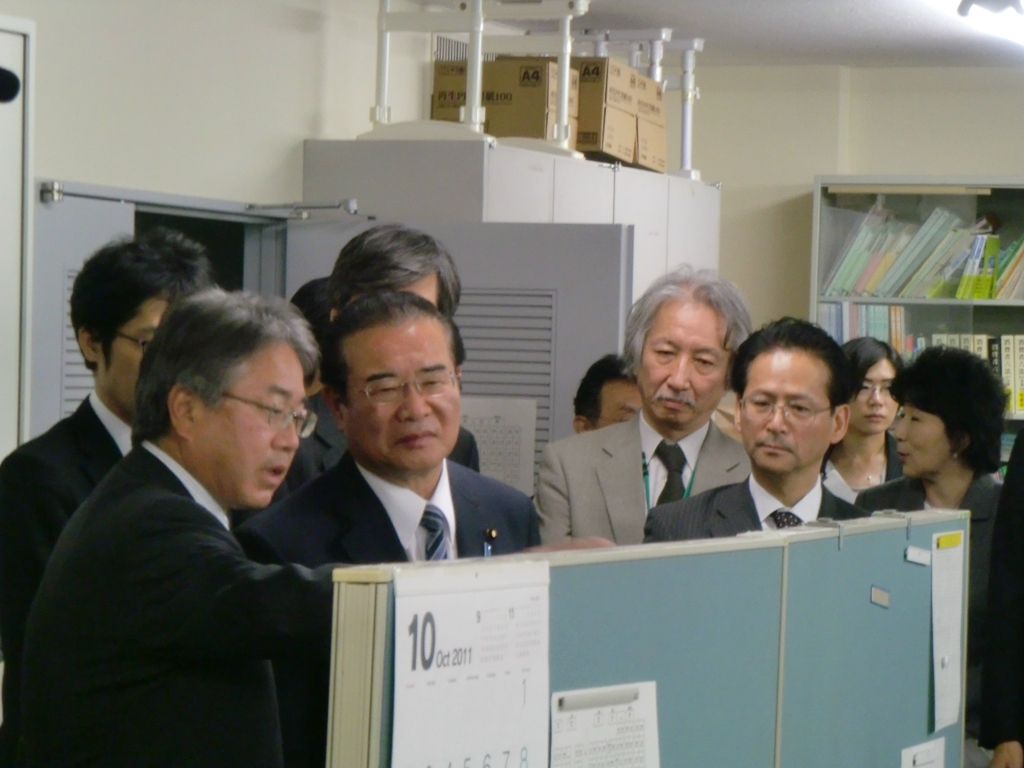 Kenji Yamaoka, Minister of State for Consumer Affairs and Food Safety, inspected Tōkyō Office, National Consumer Affairs Center of Japan in Shinagawa Ward, Tōkyō Metropolis on October 19, 2011. (For terms of use, see 利用規約｜消費者庁.)